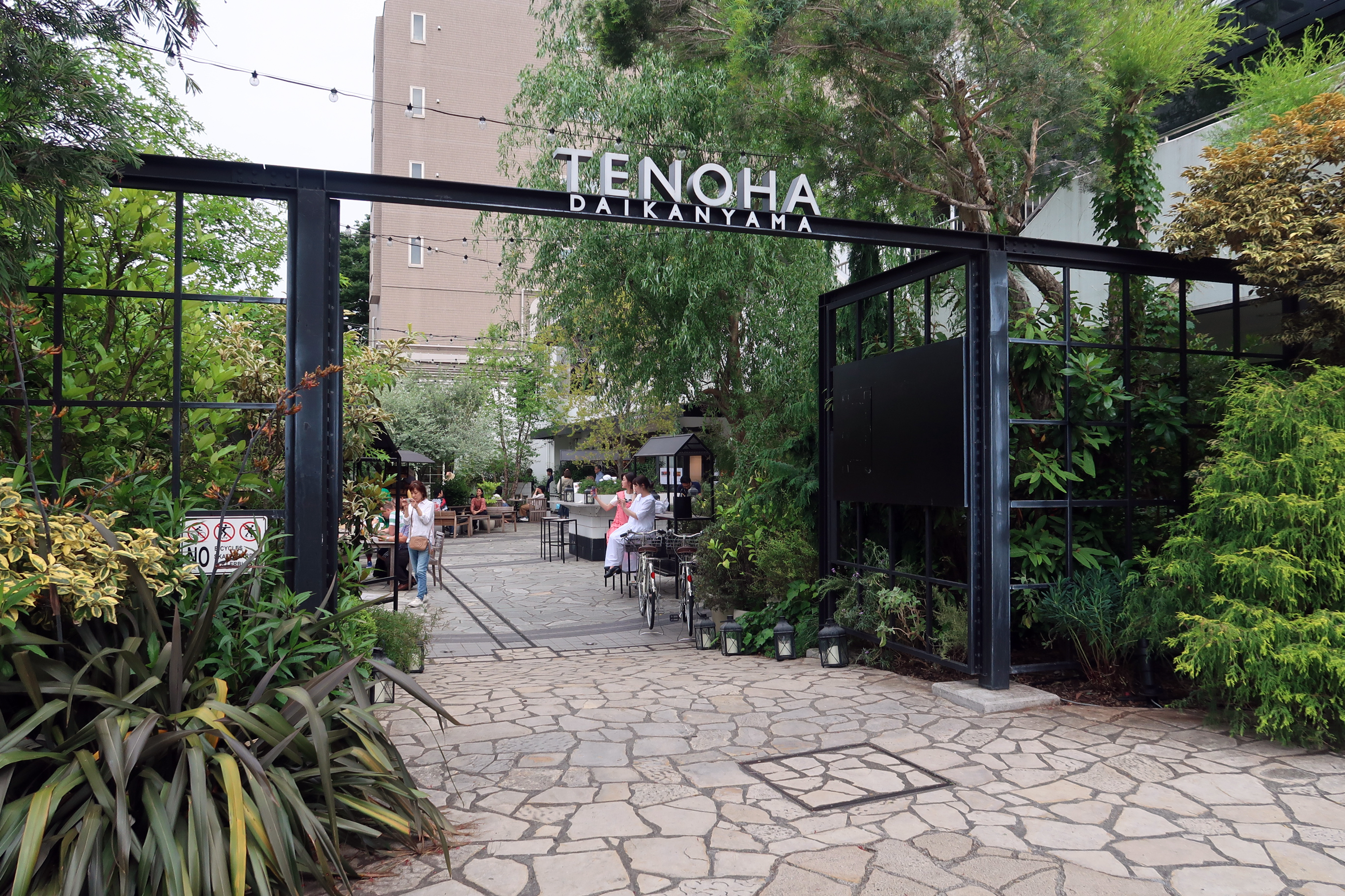 TENOHA DAIKANYAMA